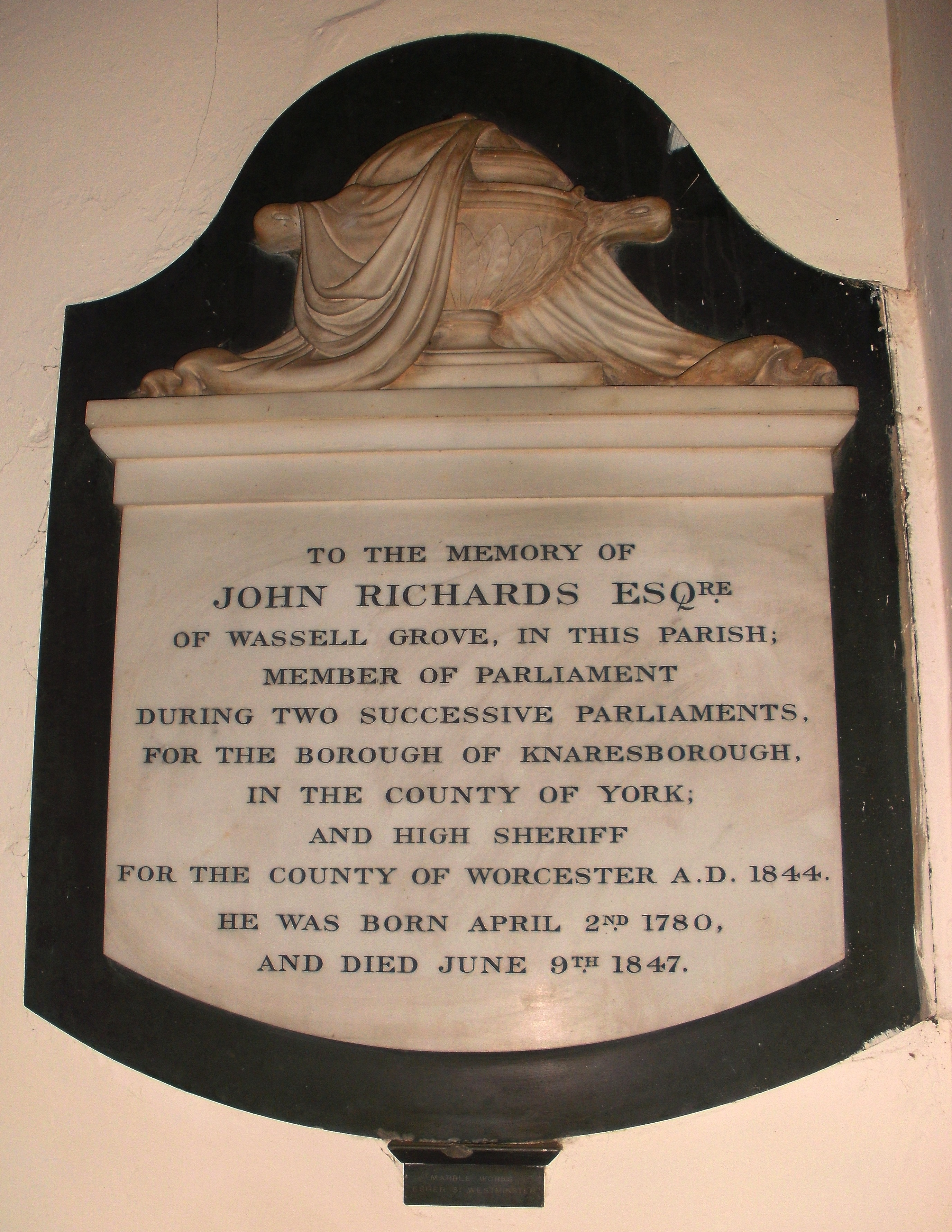 Hagley, St John the Baptist - interior, memorial to John Richards (2 April 1780 – 9 June 1847), who sat in the House of Commons between 1832 and 1837.